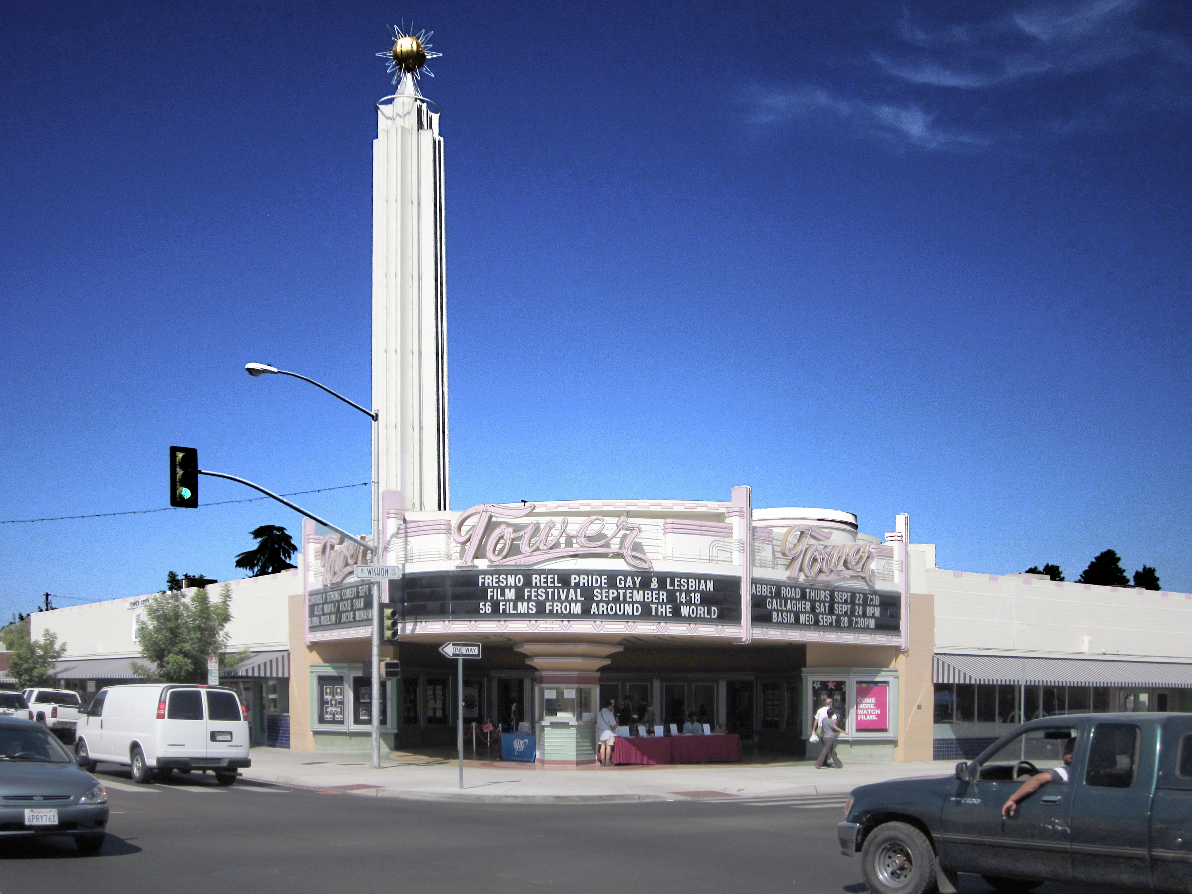 The NRHP-listed Tower Theatre in Fresno, California.